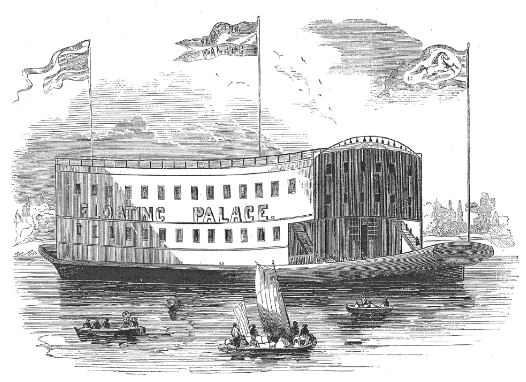 Spalding & Rogers showboat The Floating Palace c1854